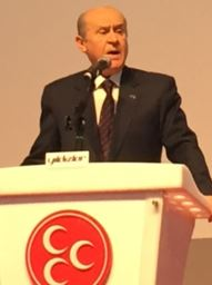 Nationalist Movement Party leader Devlet Bahçeli delivering his party's 2015 general election manifesto, 3 May 2015